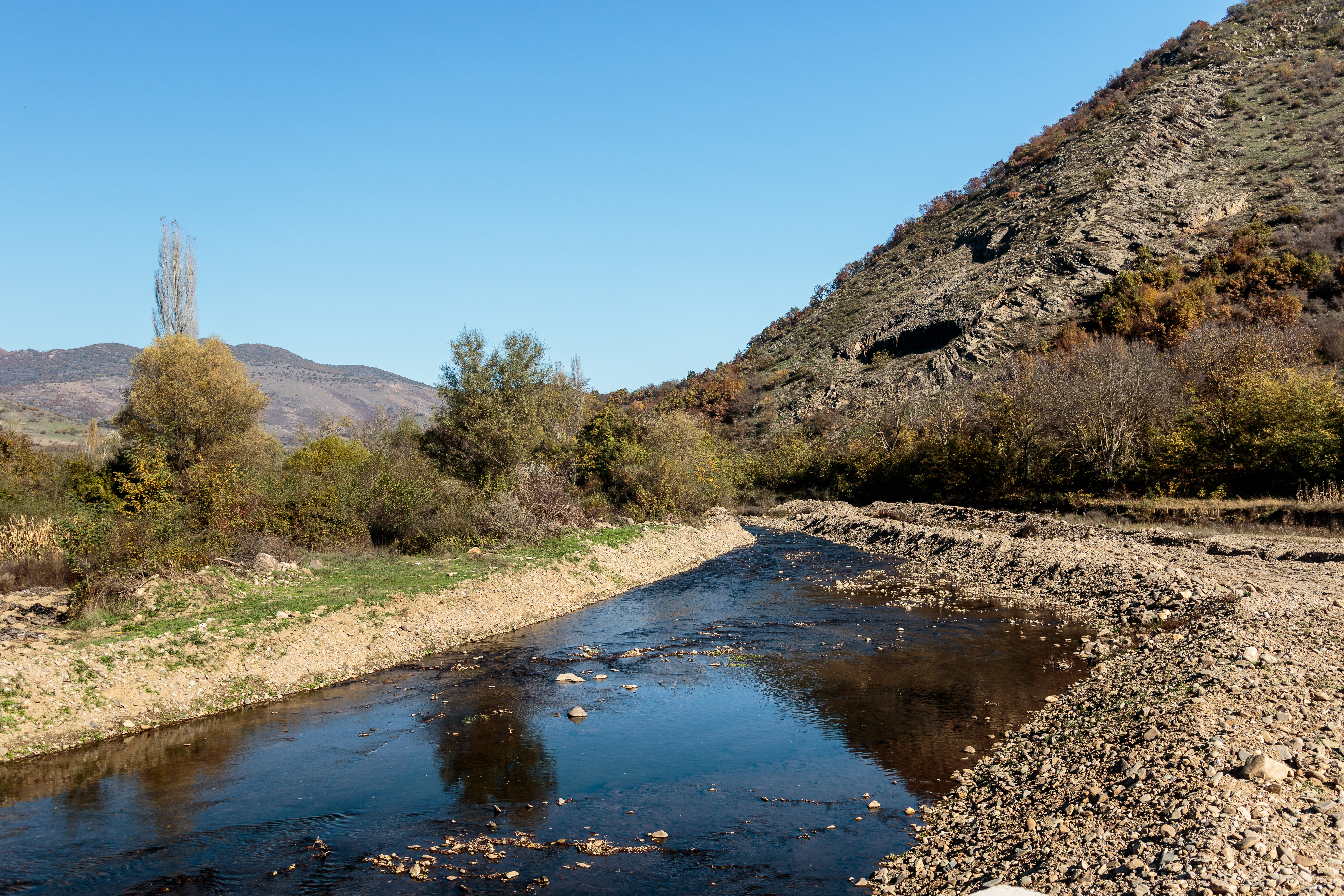 Zletovo River near the village of Ratavica, Zletovo-Probištip Region, Macedonia